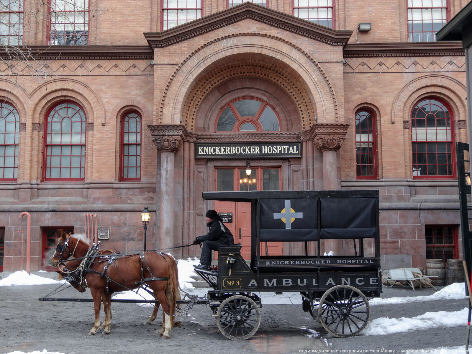 TV set for The Knick, depicting the Boys School, standing in as the Knickerbocker Hospital in New York City